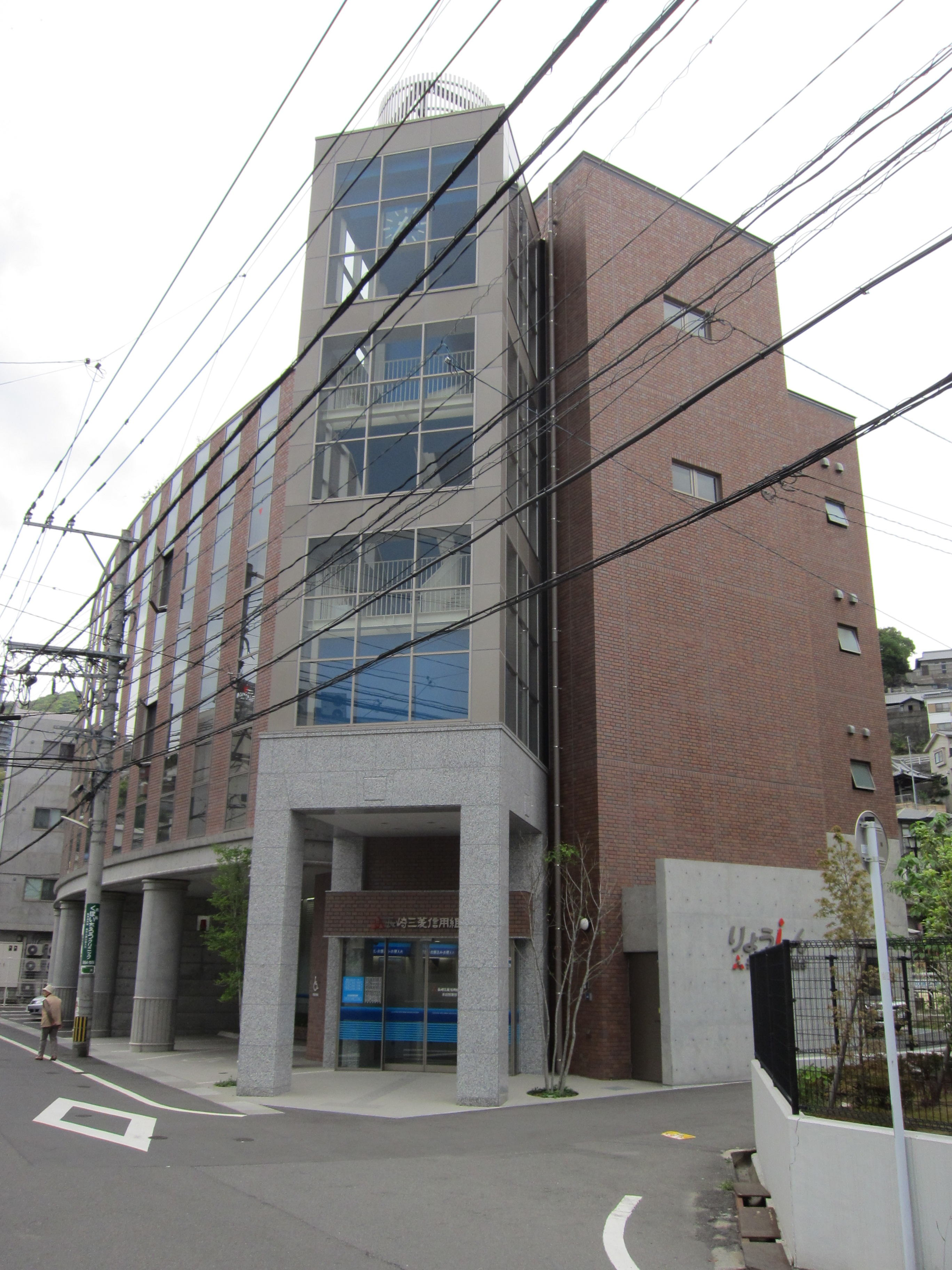 Nagasaki Mitsubishi Credit Union Bank